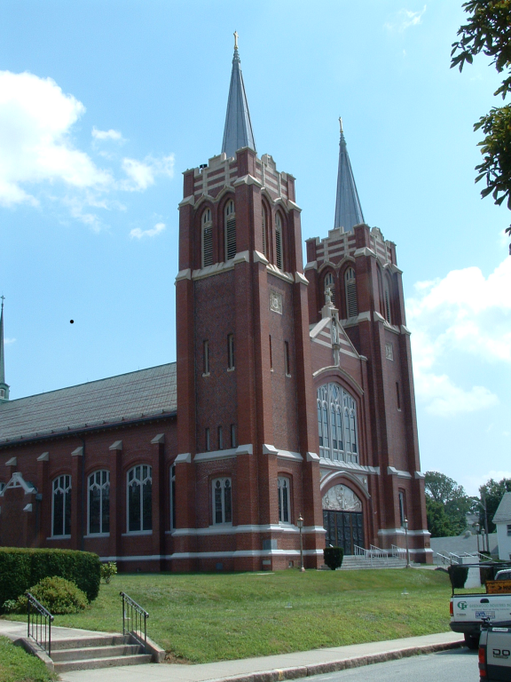 St. Joseph Basilica -exterior view, Webster, Massachusetts